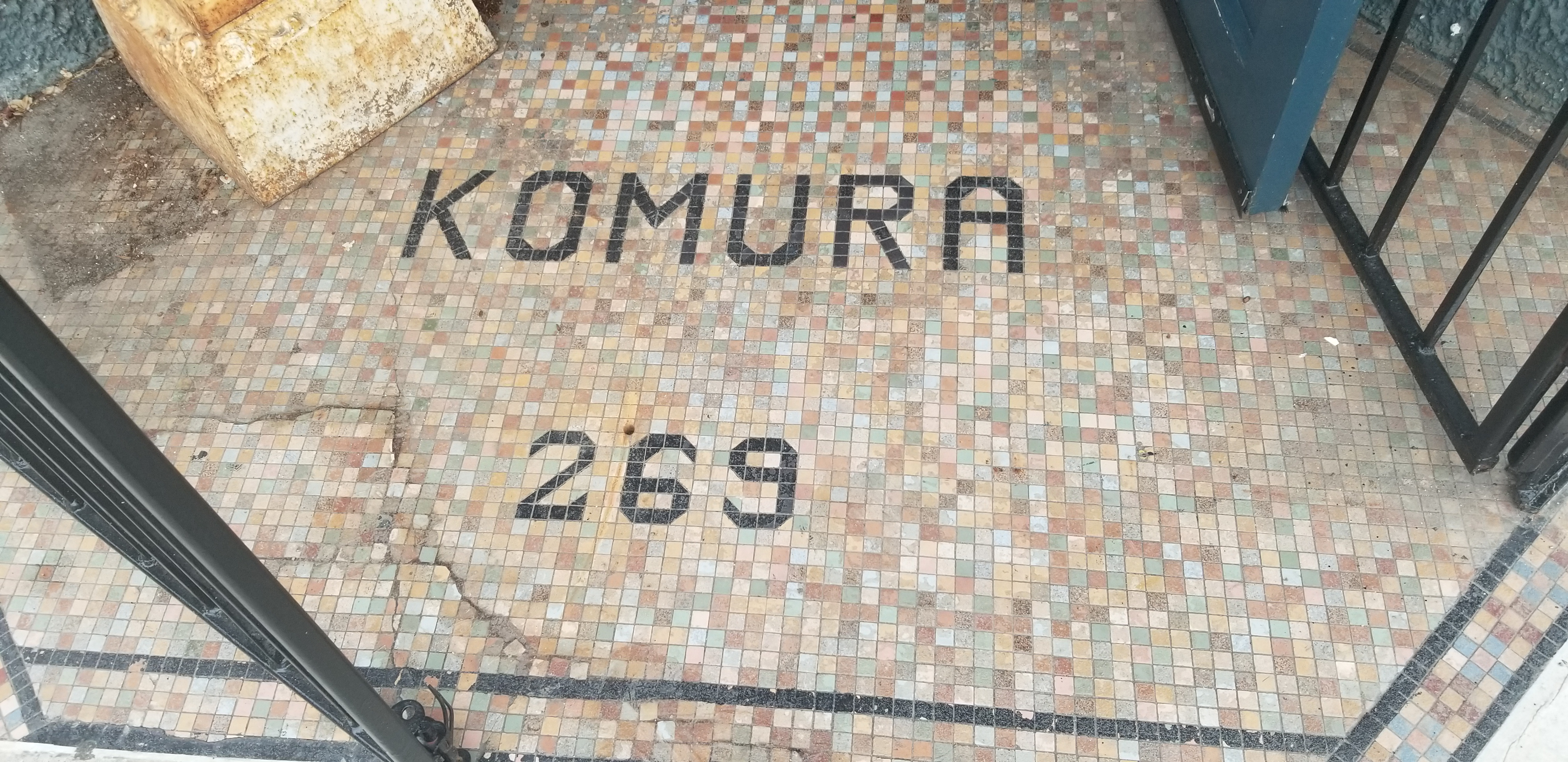 Original tiling outside of St. Lawrence restaurant in Vancouver, showing address number and "Komura" (original name of building)